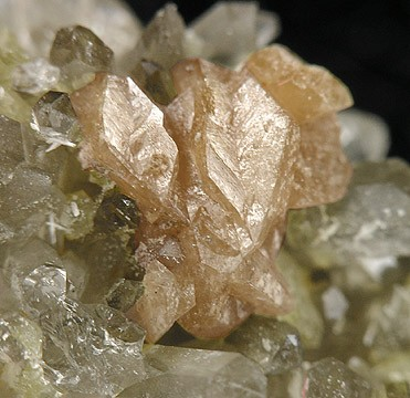 Monazite-(Ce) Locality: Siglo Veinte Mine (Siglo XX Mine; Llallagua Mine; Catavi), Llallagua, Rafael Bustillo Province, Potosí Department, Bolivia (Locality at ) Size: 2.9 x 1.7 x 1.2 cm. Monazite gets its name from the Greek word "monazein", which means "to be alone", in allusion to its isolated crystals and their rarity when first found. Monazite is usually found in granitic pegmatites, but these crystals are found in hydrothermal tin veins where there is an absolute absence of Lanthanum (usually a trace element in Monazite). This is a fine specimen hosting very-well crystallized, sharp, lustrous, translucent, orange-pink, "butterfly" twinned crystals of Monazite-Ce measuring 7 mm on Quartz crystals on matrix. The crystals actually perform a color change in different lighting ranging from orange-pink to almost yellow/colorless depending upon the light source. This piece is from the same mine from which this material was discovered along the Contacto and San Jose veins in this mine and was first described by Sam Gordon and Mark Bandy.